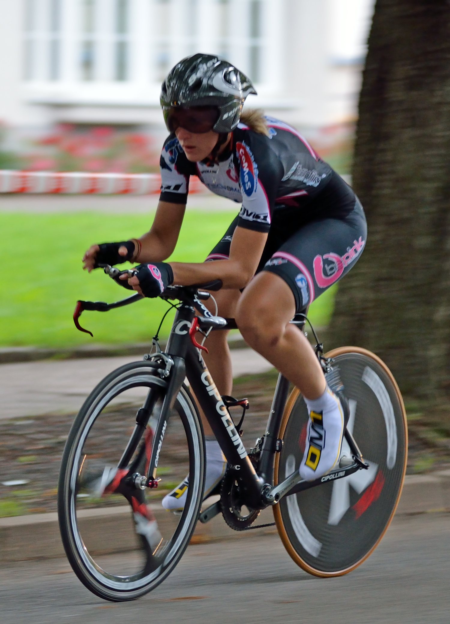 Simona Frapporti from the Be Pink team during the Women's Tour of Thuringia 2012 in Zwickau, Germany.